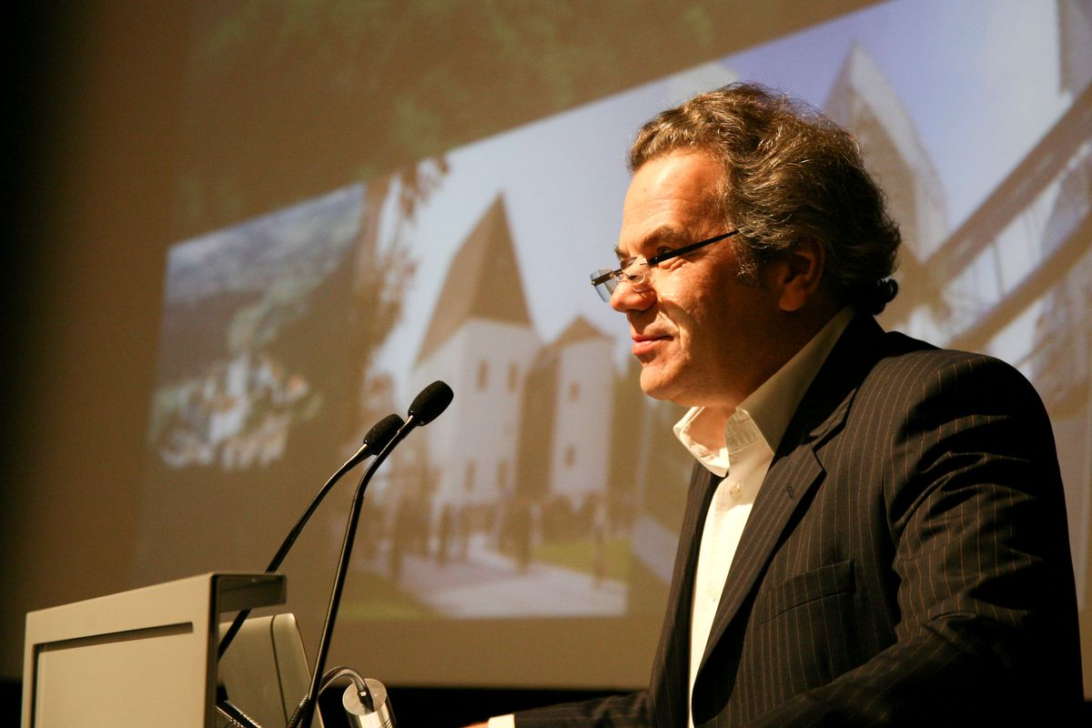 Oliver Grau during his keynote talk at IEEE ISMAR 2011 in Basel, Switzerland